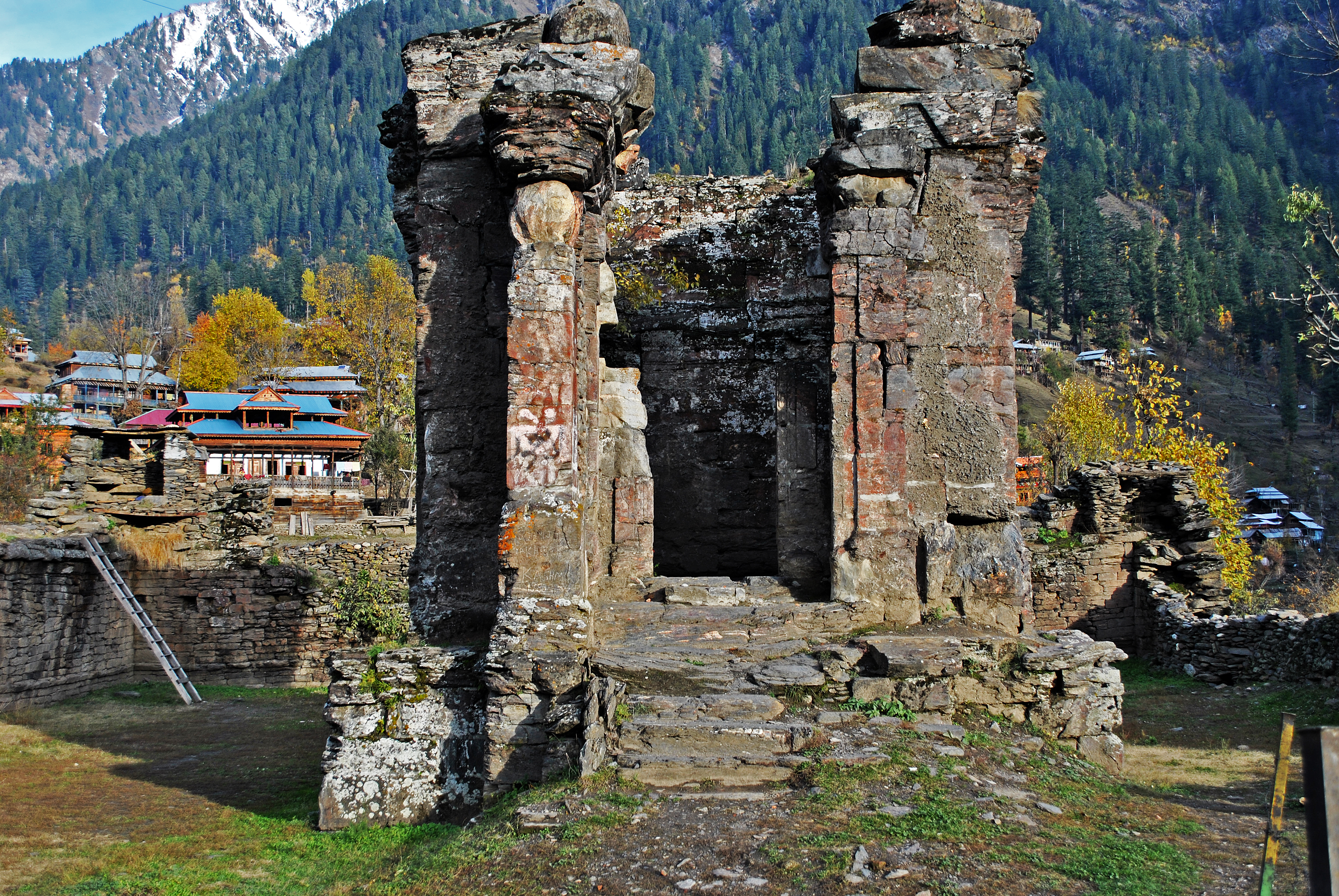 Ruins of the Sharada Peeth